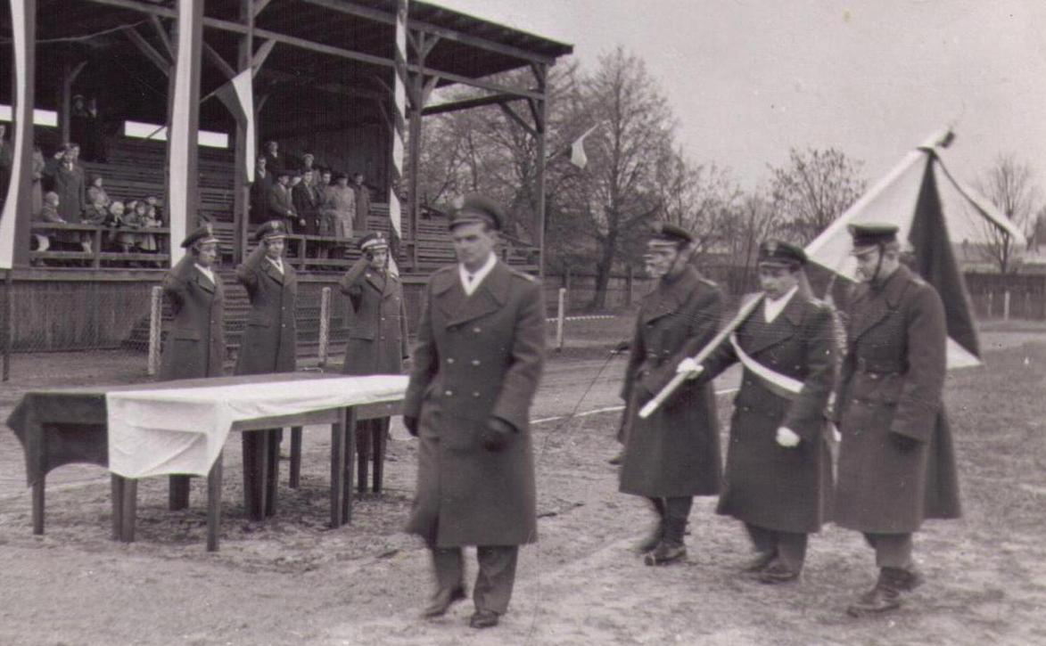 Wręczenie sztandaru dla 64.LPS d-ca mjr pil. Bolesław Andrychowski 1960